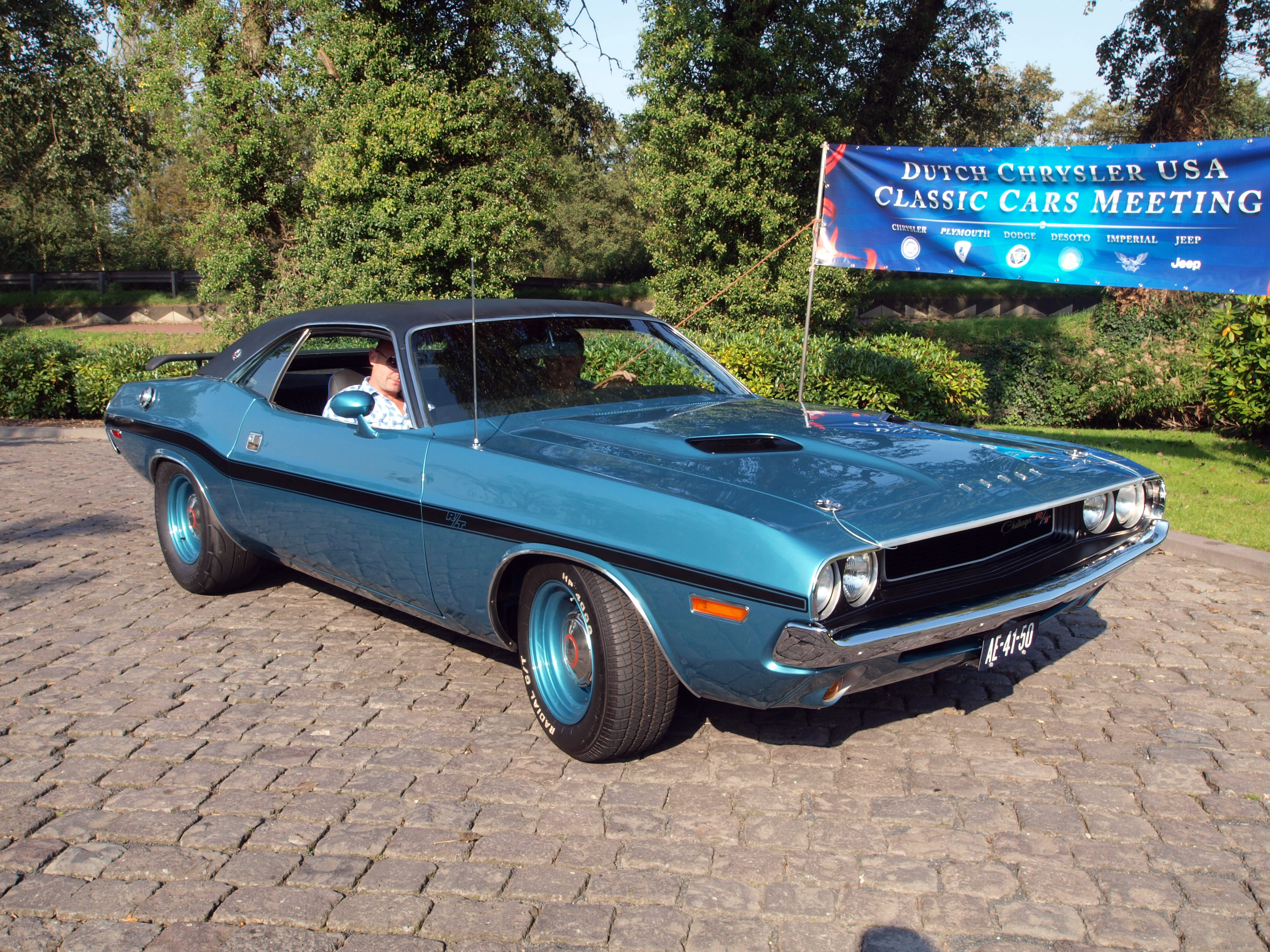 Photographed at the premmesis of the Louwman museum, The Hague, The Netherlands. OLYMPUS DIGITAL CAMERA